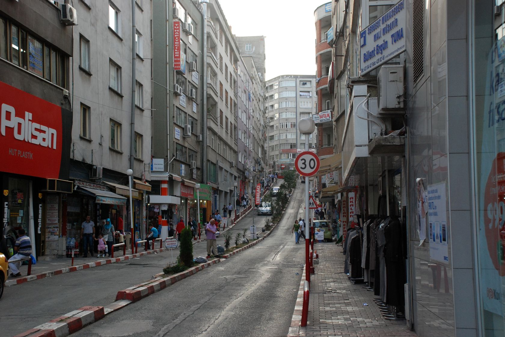 Samsun, Turkey, center